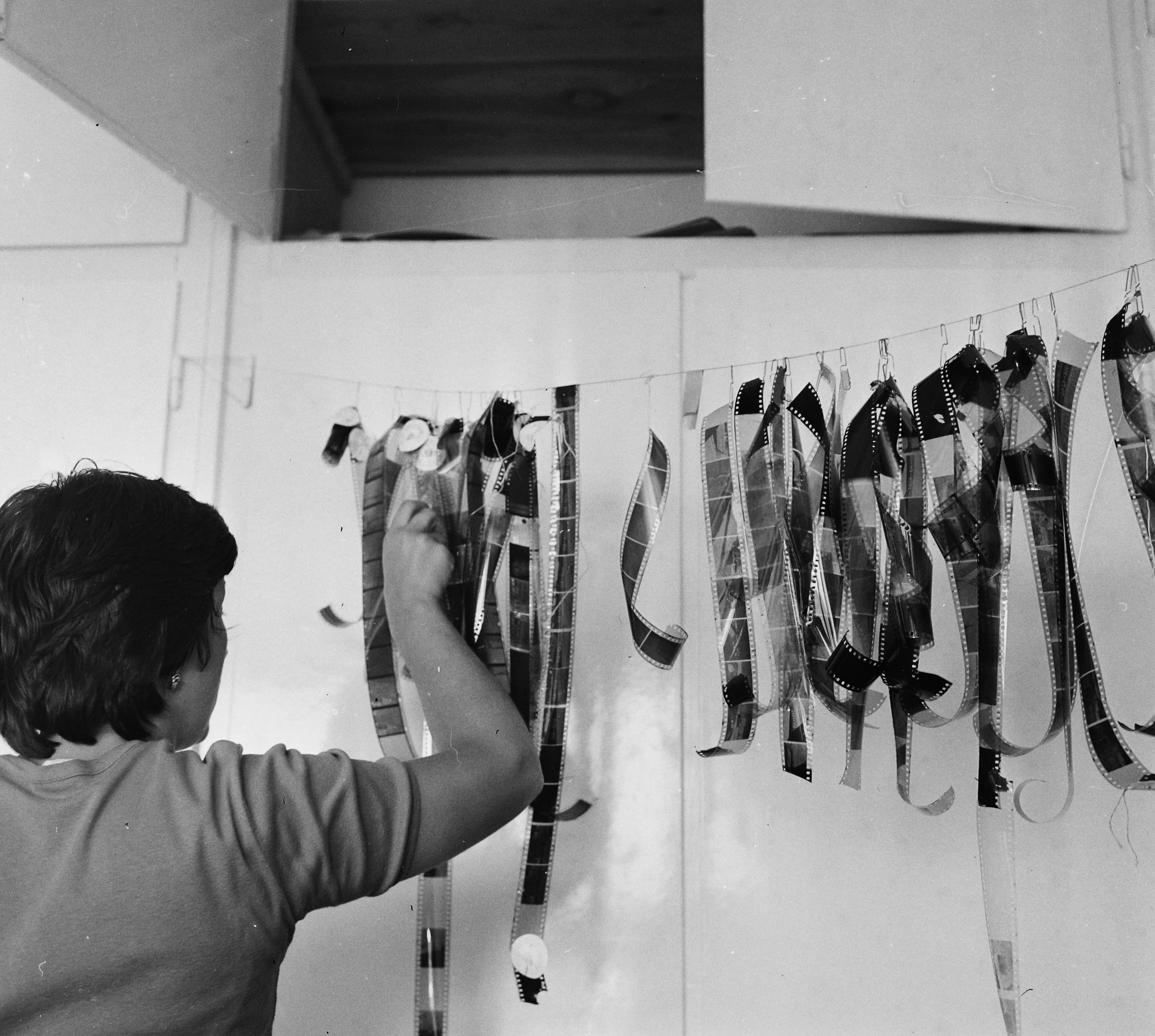 Hungary? Tags: photography, negative film